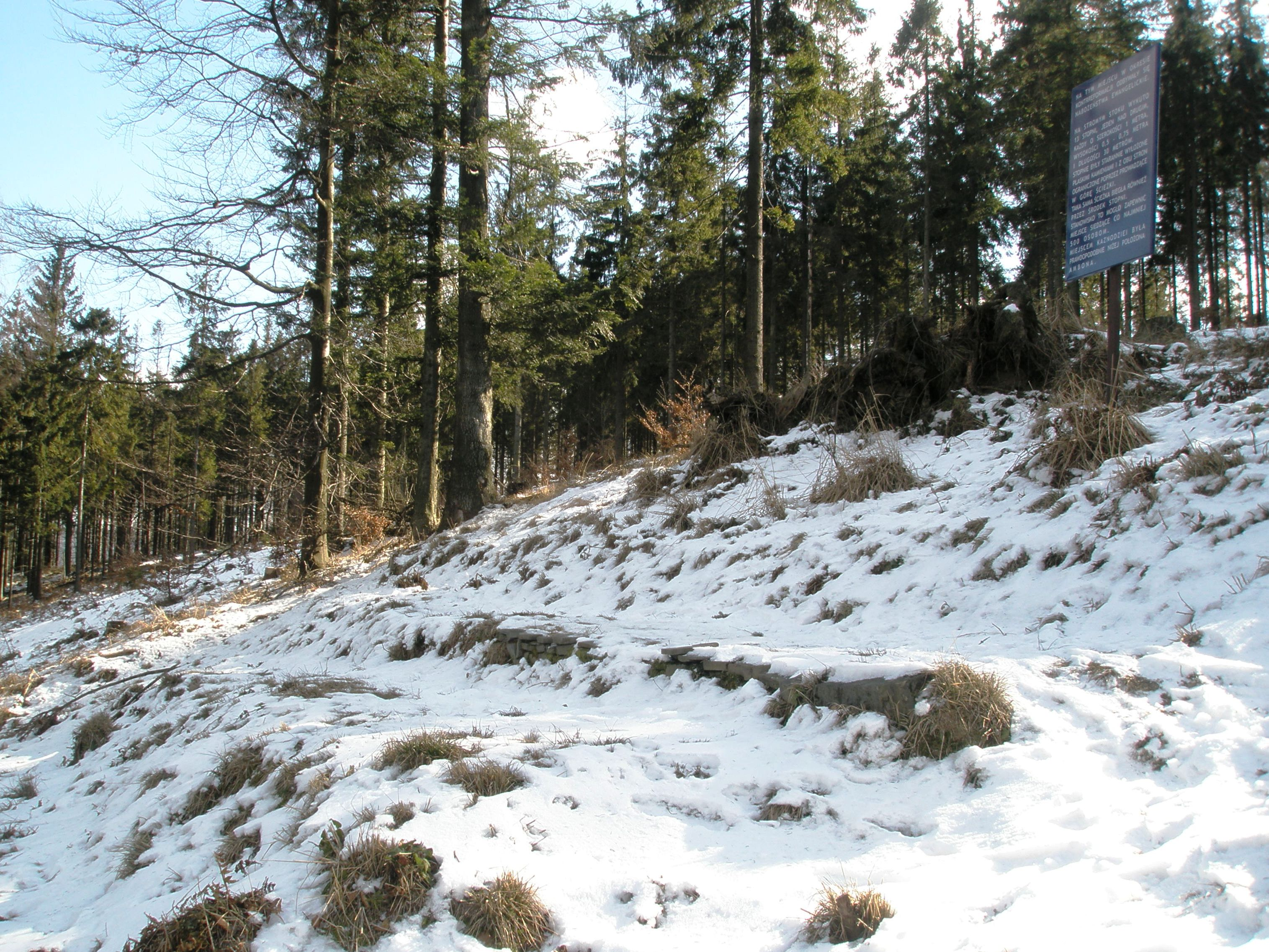 Forest church in the slope of Wysoki near Ernsdorf (Jaworze)